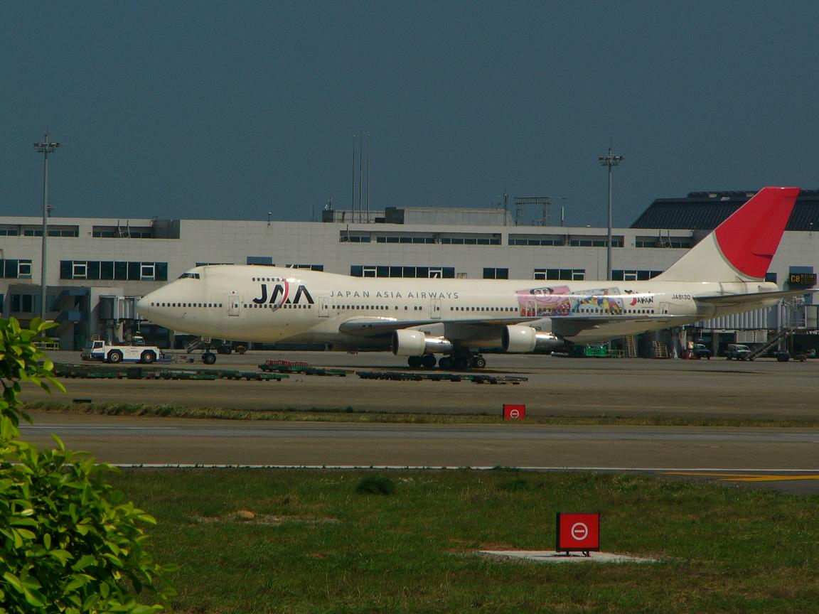 Japan Asia Airways Boeing 747-200 Reg No. JA8130 Photo by Ellery Cheng near C.K.S. Intl. Airport in Taiwan Apr. 30th 2005